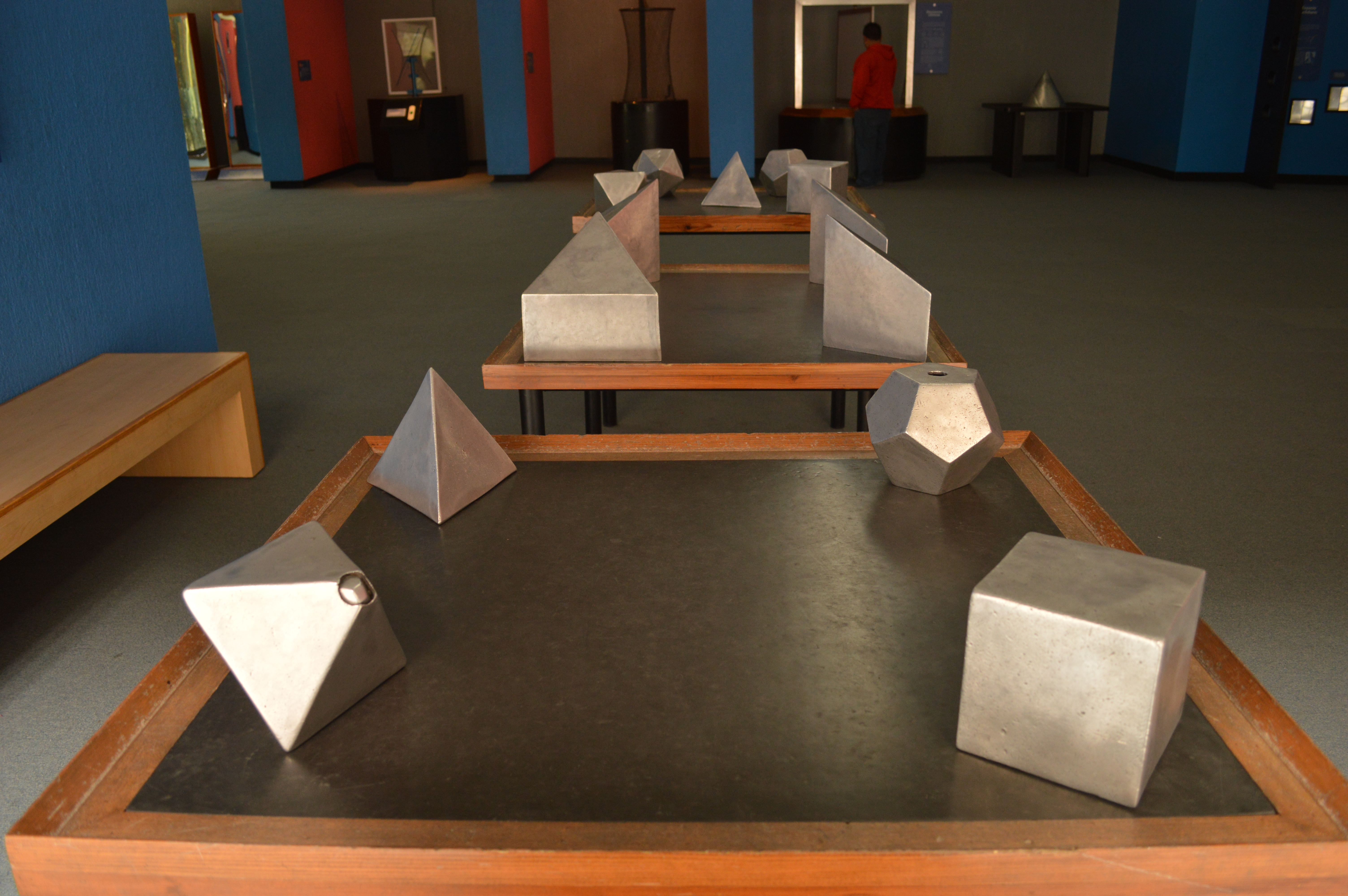 Polyhedron blocks for manipuation at Universum at the Ciudad Universitaria in Mexico City